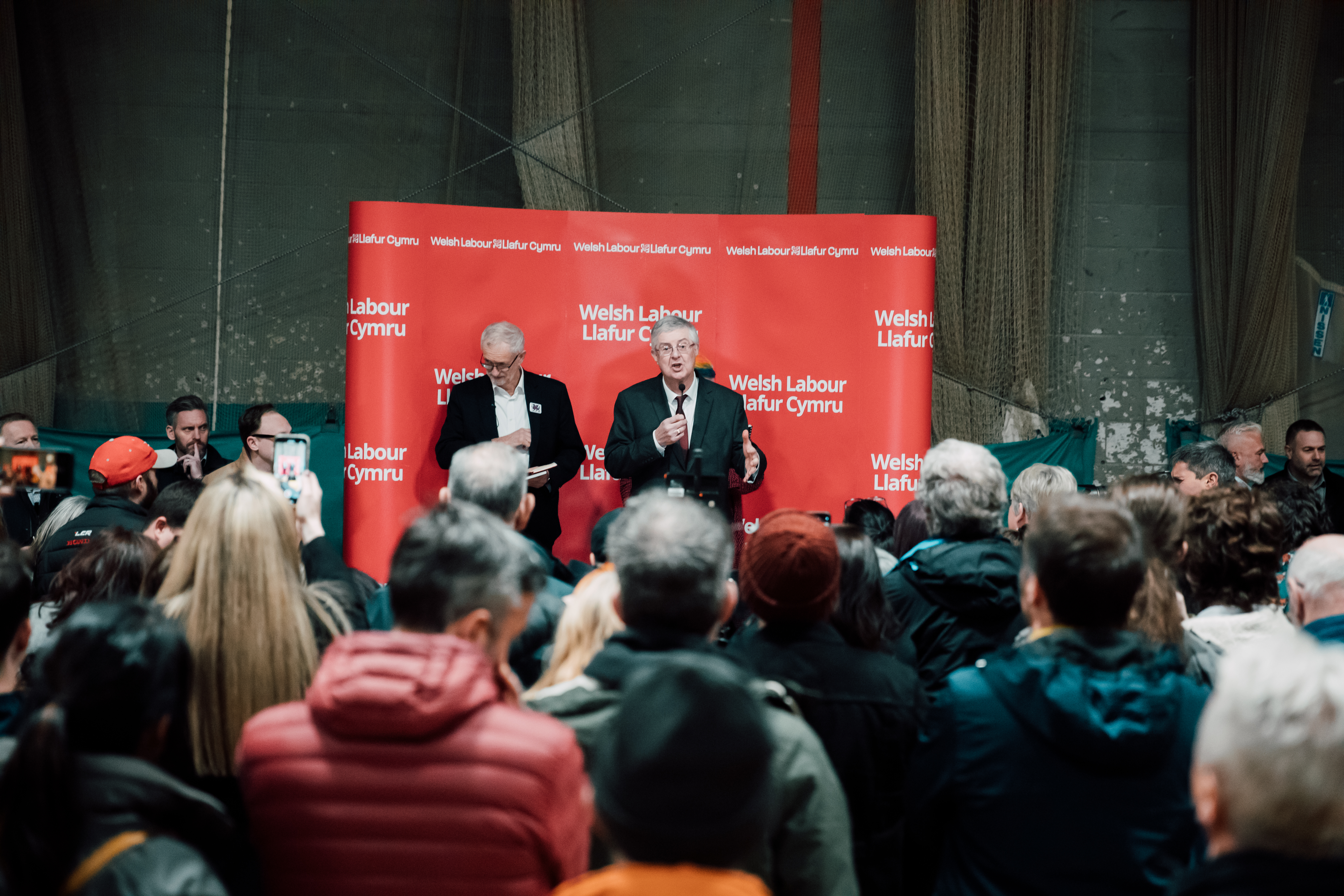 I took Labour’s message of real change to Colwyn Bay. (8th December, 2019) I’m proud of what Welsh Labour has done in government in Wales over the last few years and Labour government in Westminster will continue their work by standing up for Wales.